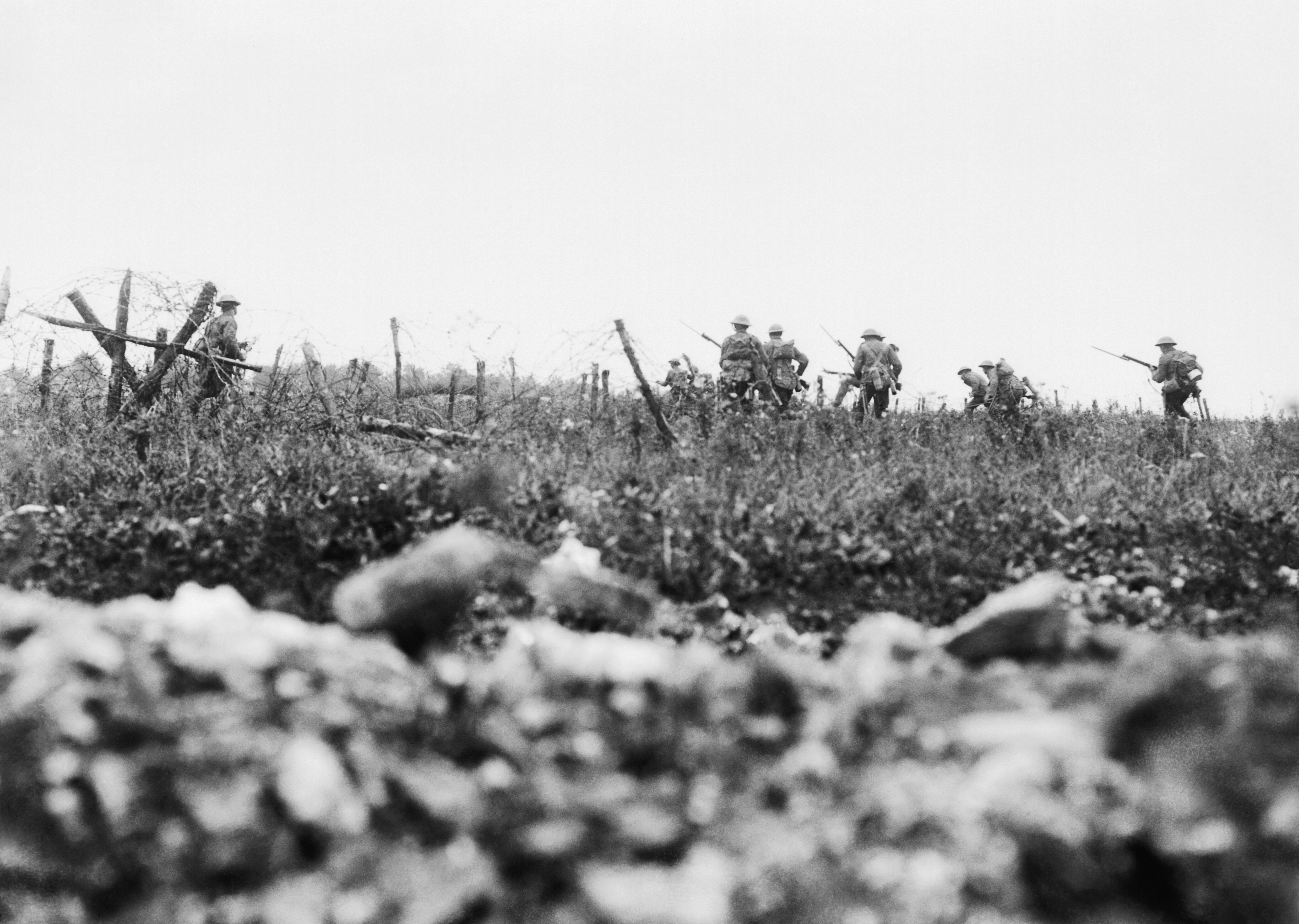 British infantry from The Wiltshire Regiment attacking near Thiepval, 7 August 1916, during the Battle of the Somme. Comment : This could be either the 1st Battalion, part of 7th Brigade, 25th Division, or the 6th Battalion, part of 58th Brigade, 19th Division. Both battalions took part in operations of Battle of Pozières and Battle of Mouquet Farm.